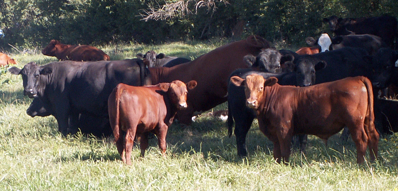 Mix of red angus and angus (cattle). Photo by poster in September 2007.